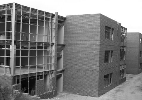 William G. Enloe's new building under construction in 2006